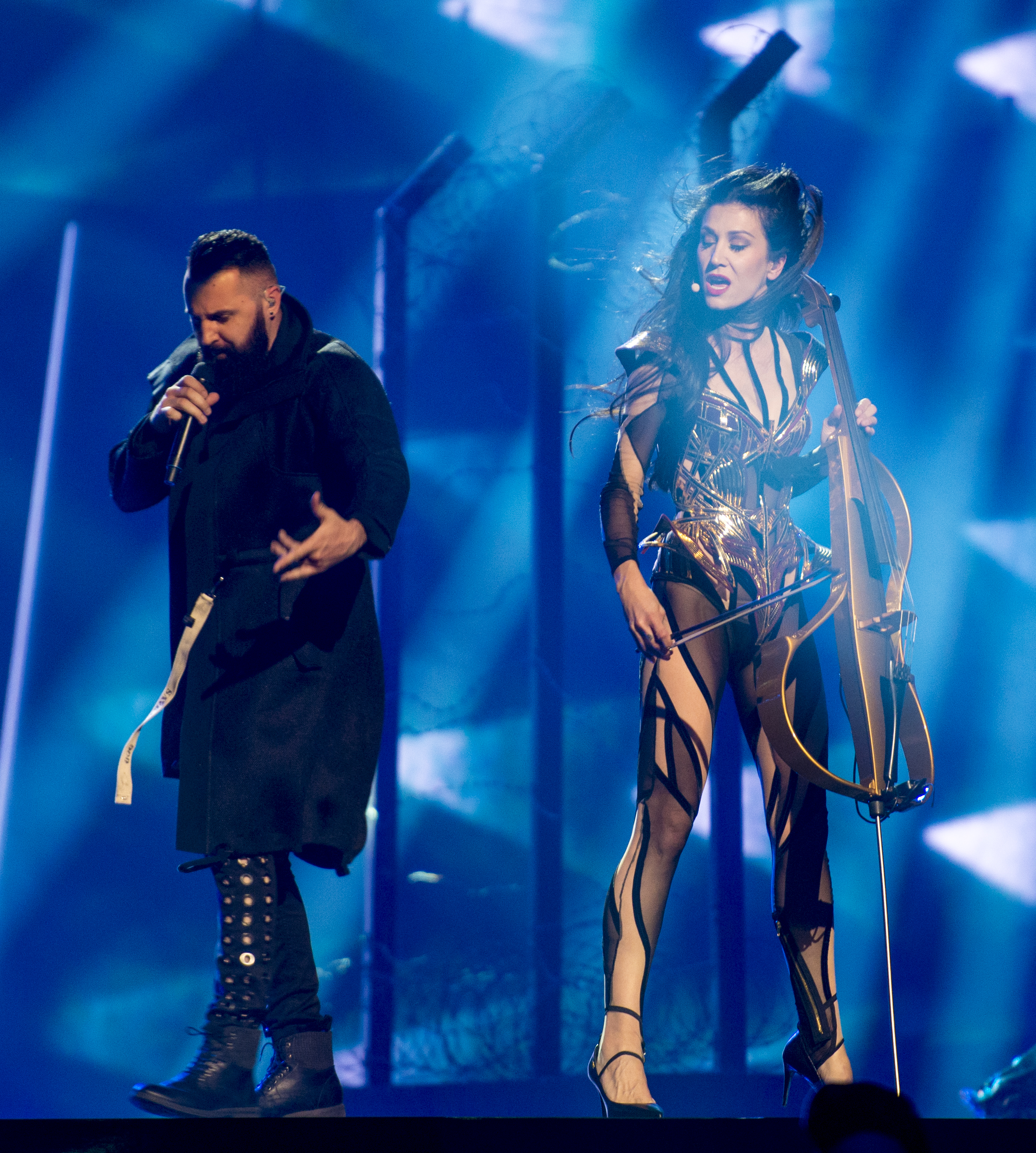 Dalal & Deen feat. Ana Rucner and Jala representing Bosnia and Herzegovina with the song "Ljubav je" during a rehearsal before the first semi final of the Eurovision Song Contest 2016 in Stockholm. (Help translate this text)